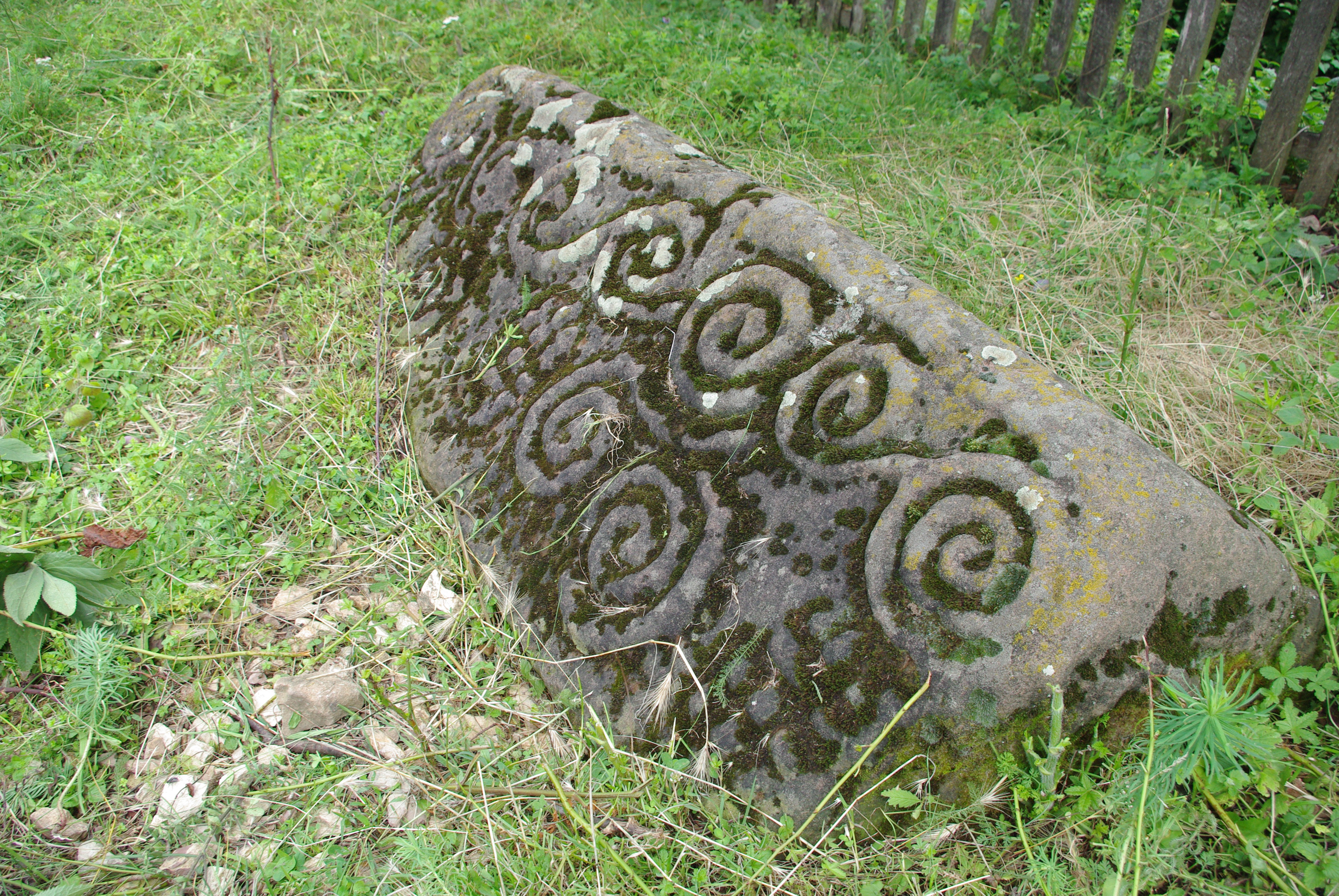 Stone near Banja Koviljaca. Probably roman culture.